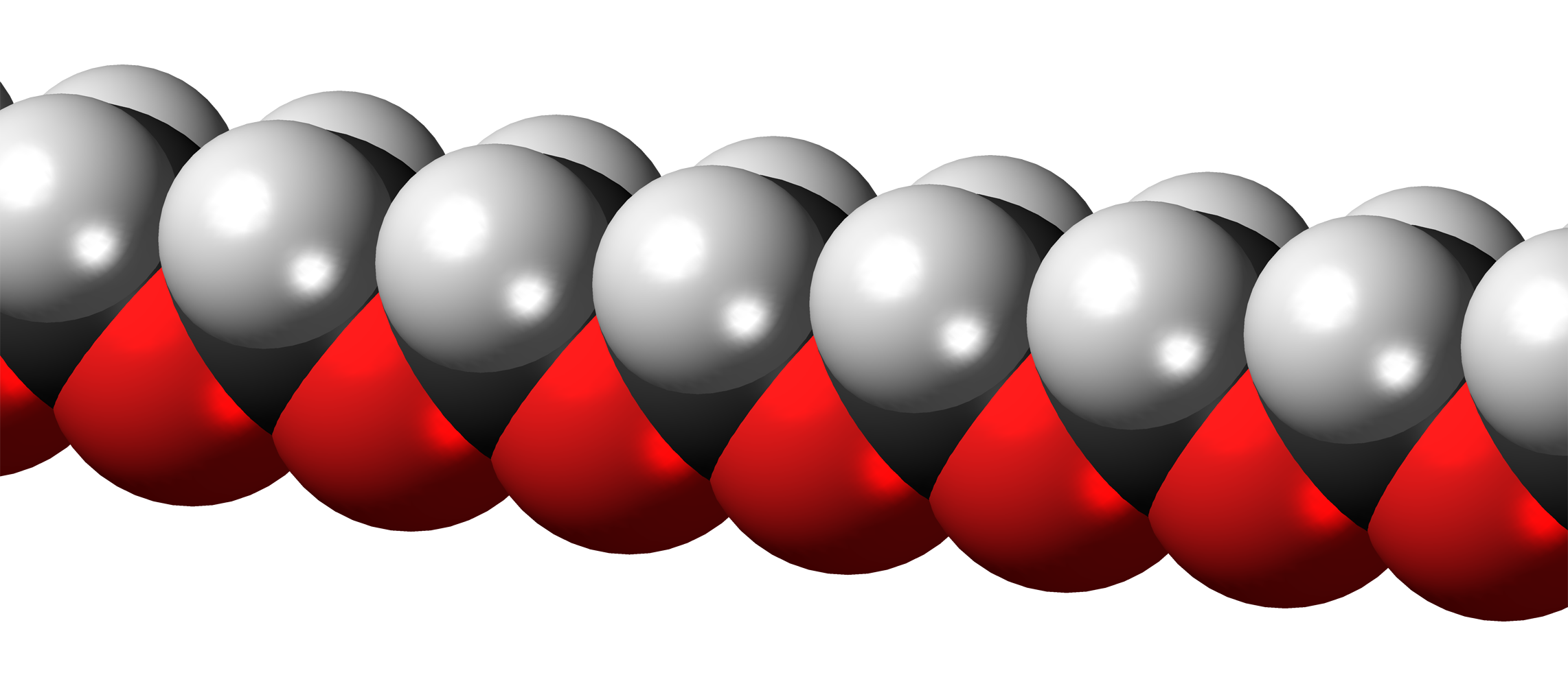 Space-filling model of a polymer section of polyoxymethylene, also known as polyacetal and polyformaldehyde, a widely used type of plastic. Colour code: Carbon, C: black Hydrogen, H: white Oxygen, O: red